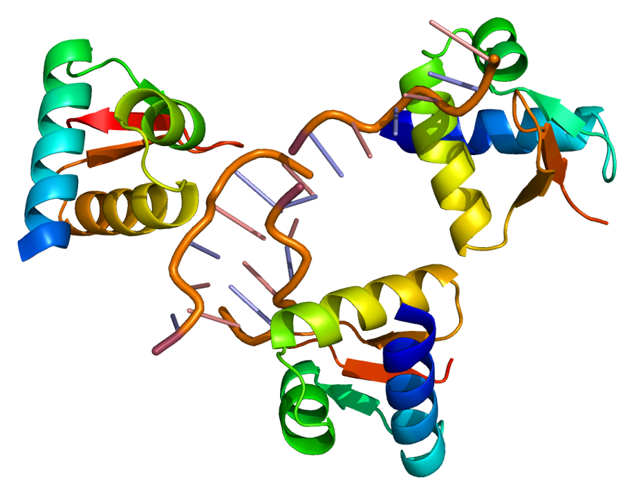 Structure of the ADAR protein. Based on PyMOL rendering of PDB 1qbj.